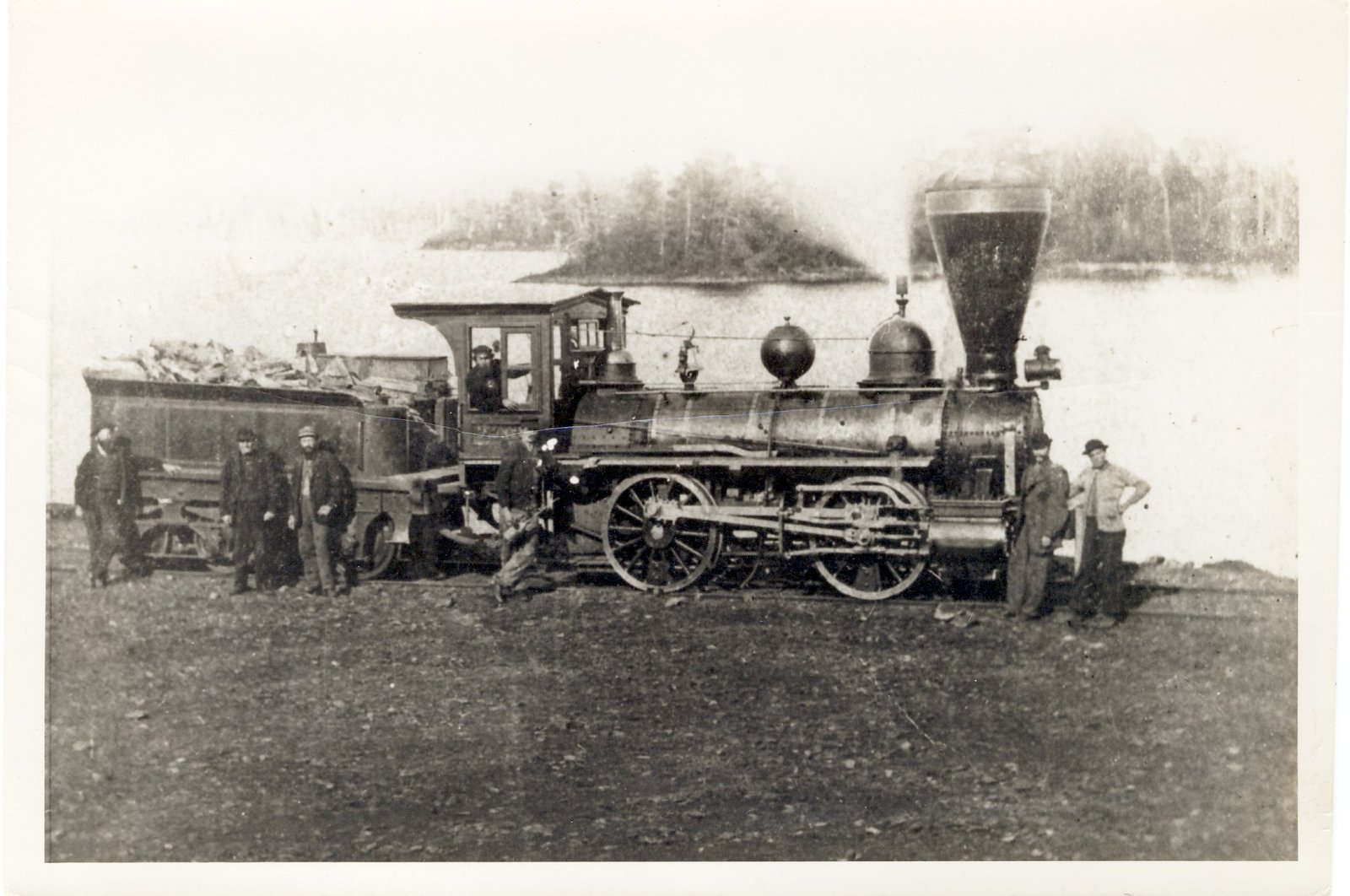 This image shows a steam locomotive on the Blairton Extension of the Cobourg & Peterborough Railway circa 1870. The original railway had gone bankrupt, but was reorganized as the Cobourg, Peterborough & Marmora Railway & Mining Company in August 1866 to serve the mining areas in the Marmora region. A new section of line was run from the Trent River to the Blairton Mine, which was the largest iron mine in North America at that time. Ore was shipped over the Extension to the Trent River where it was unloaded onto barges, toed to Rice Lake, and then loaded back onto trains on the original Cobourg and Peterborough for the trip to Cobourg Harbour. The mine closed in 1883, and the company attempted to sell off the Extension to the Ontario and Quebec Railway, but this never happened and the line was abandoned.